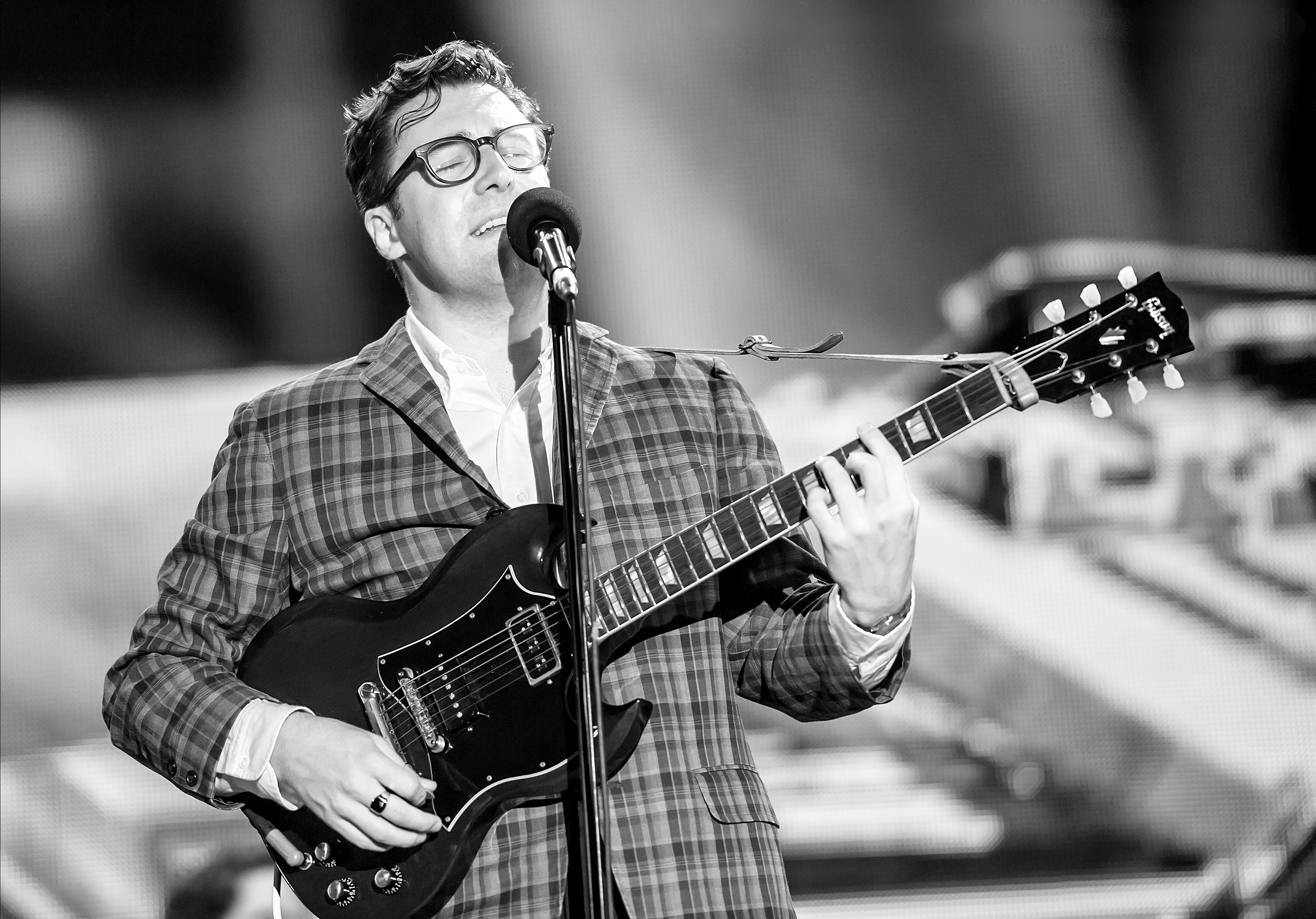 Please, feel free to comment. Much appreciated. Also, take a moment and visit my 500px and Flickr profiles